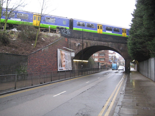 Gospel Oak: Gordon House Road railway bridge A London Overground train trundles out of Gospel Oak station heading towards Barking, along what was originally built as the Tottenham and Hampstead Junction Railway. The bridge, which has a marked skew, has a separate small passageway for pedestrians on the right side only.